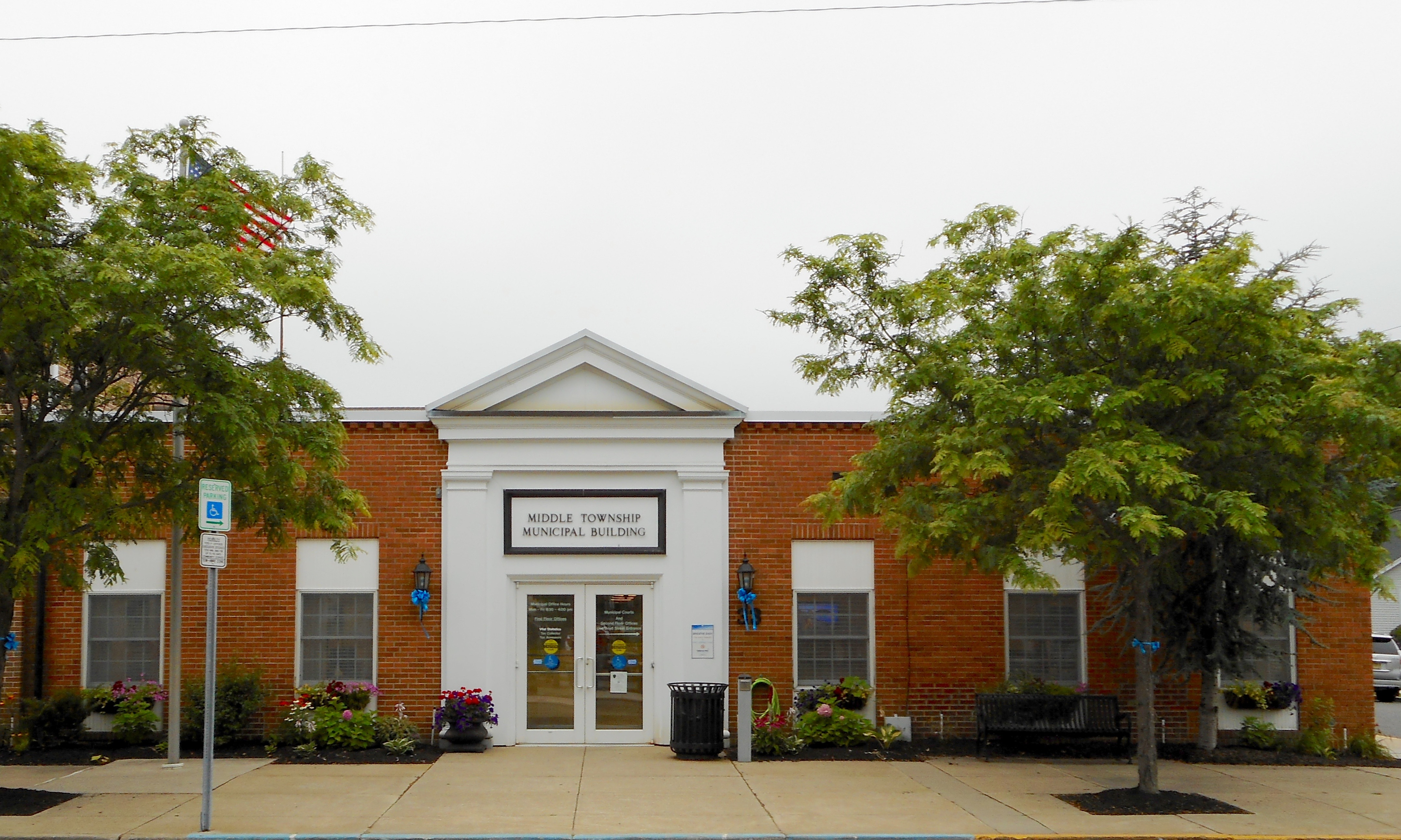 Middle Township Municipal Building located in Cape May Court House, New Jersey